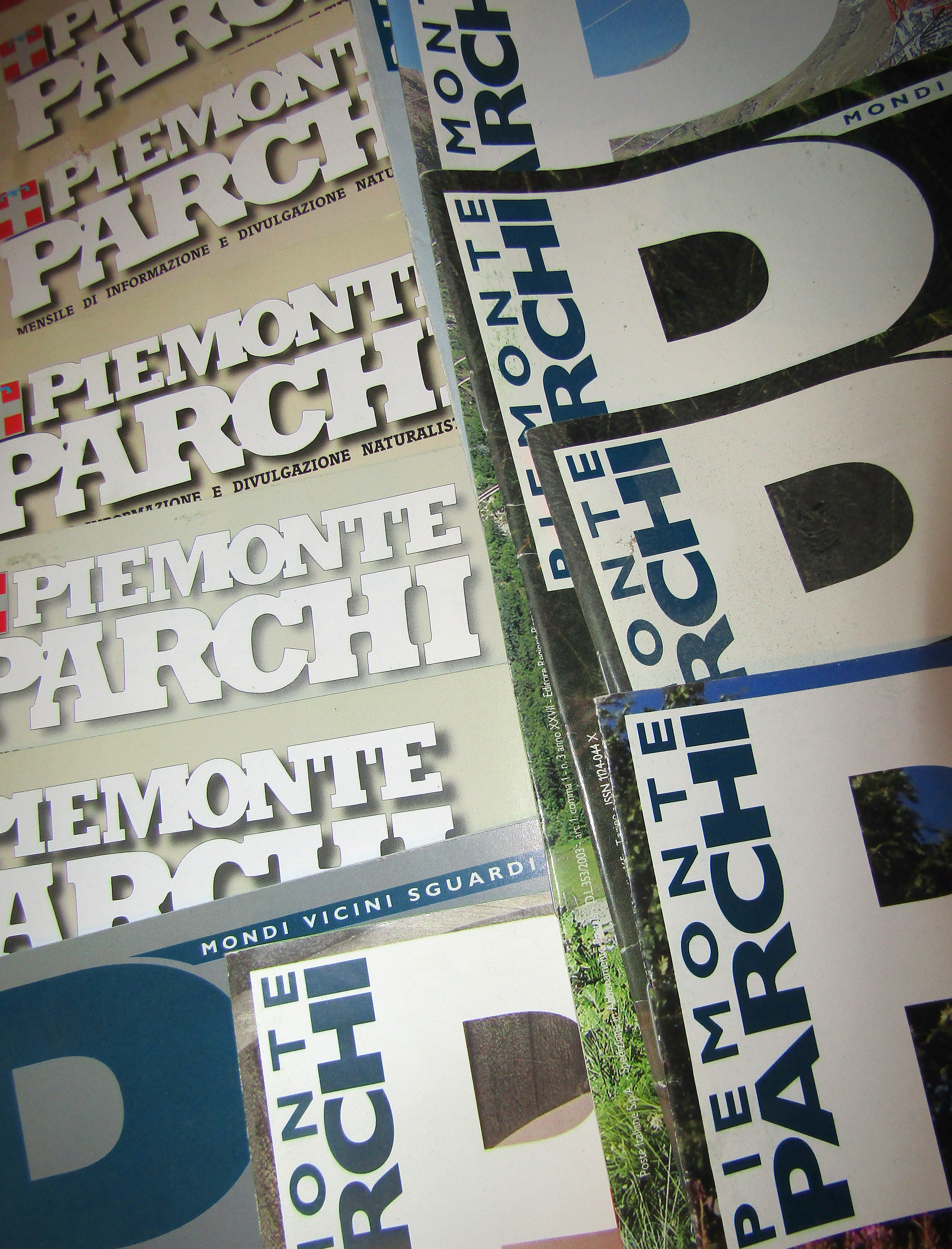 Piemonte Parchi (Italian magazine): different years issues